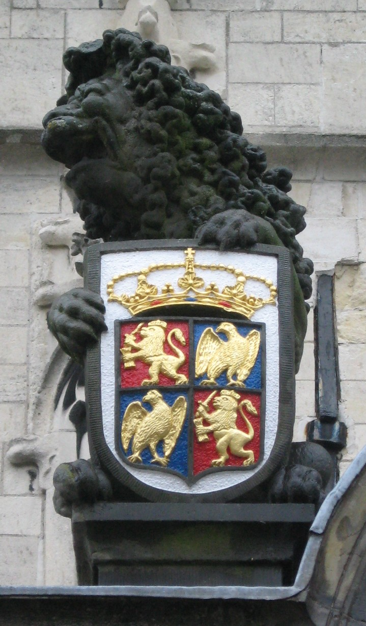 Coat of arms of the Kingdom of Holland as used from 1806 to 1810 by Louis Napoleon. Original on the town hall of Gouda, The Netherlands. (Repainted in 2008)